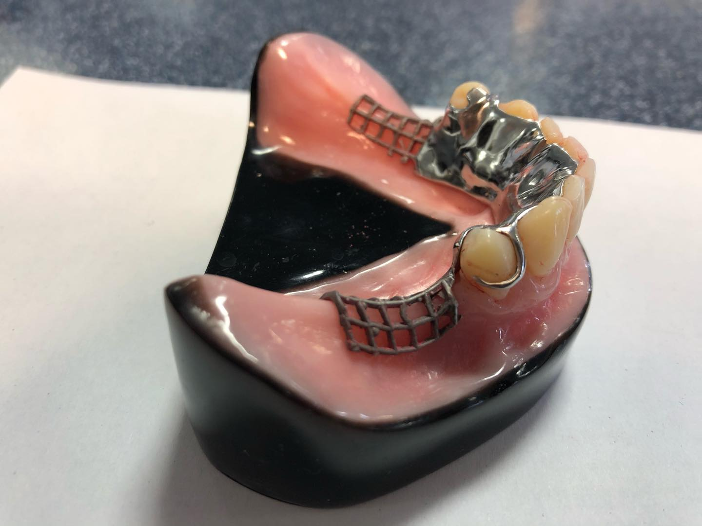 Lingual plate example (Photo: Model from the Unversity of Dundee Dental School integrated teaching laboratory)